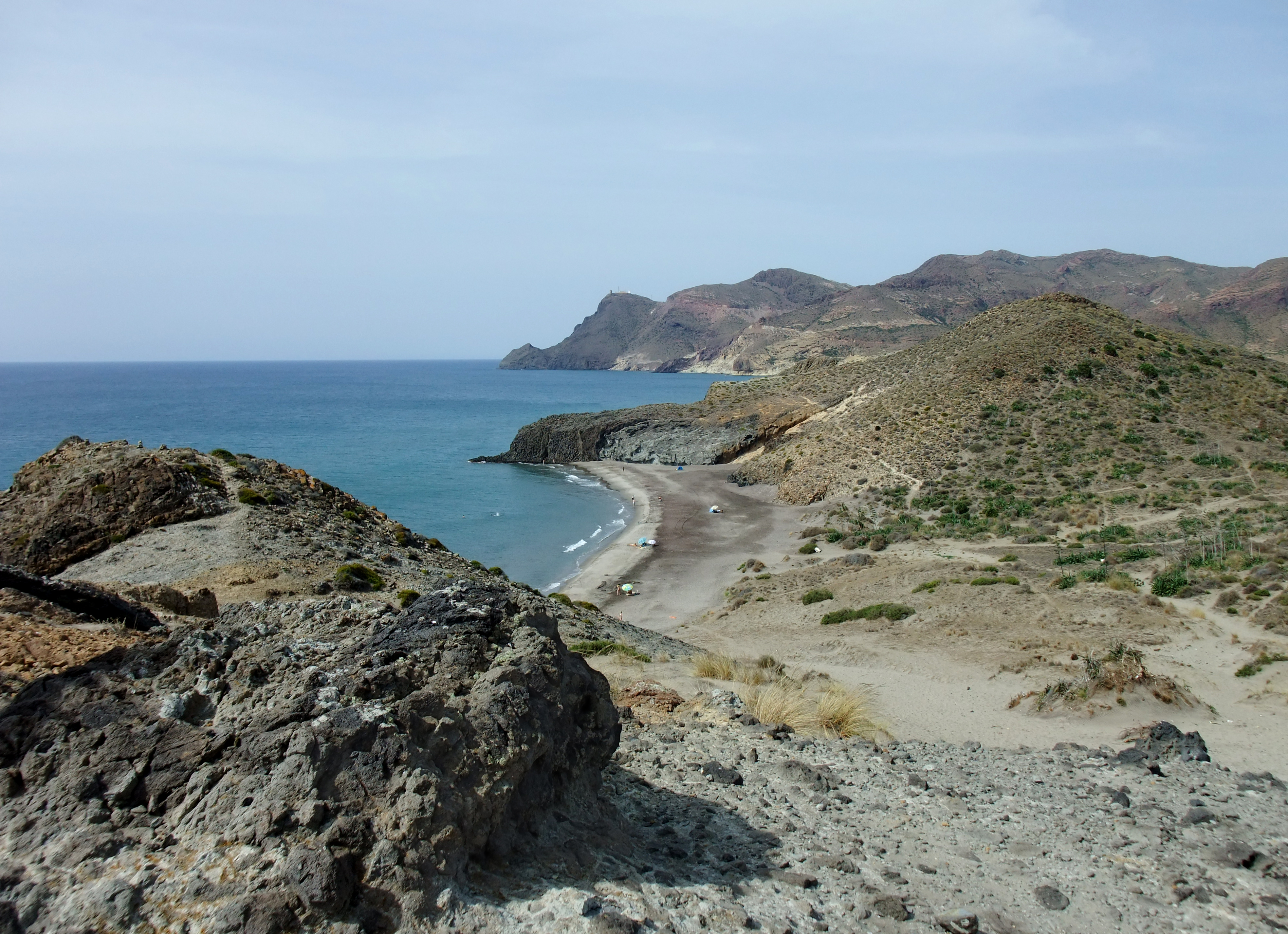 Beach of Monsul, part of the Natural Park Cabo de Gata-Nijar, Province of Almería, Spain